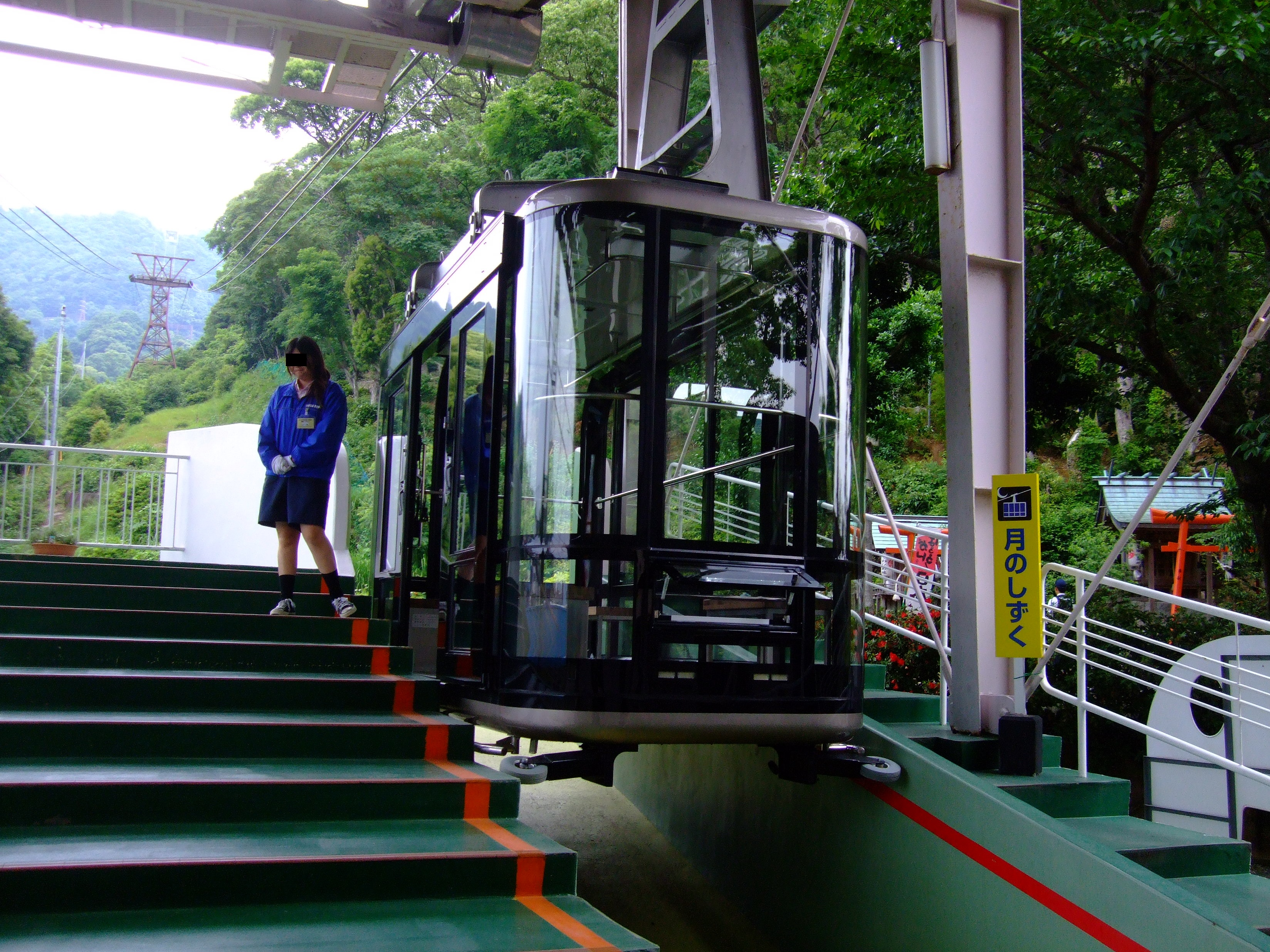 Nagasaki Ropeway Gondola Lift.